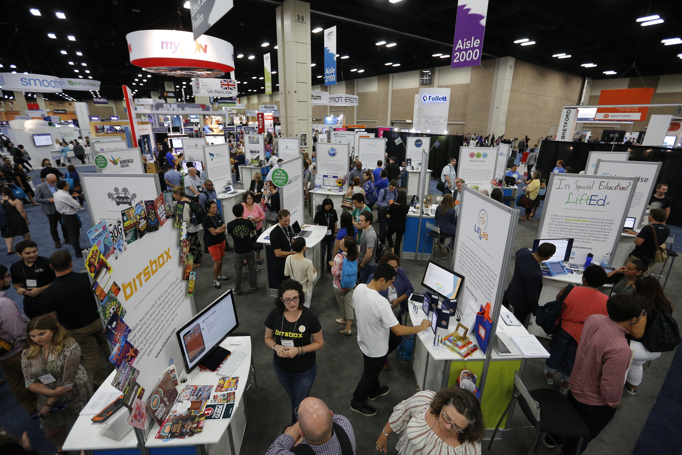 Part of the ISTE conference that highlights ed tech startups